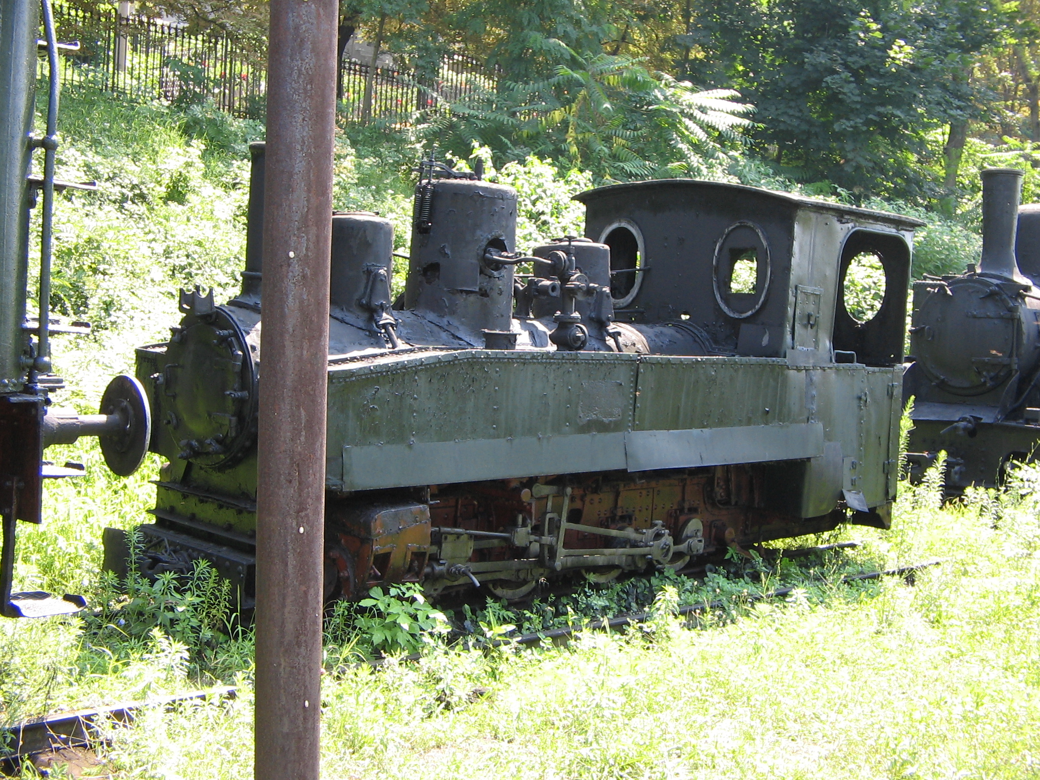 An exhibit of the National transport museum in Rousse, Bulgaria.